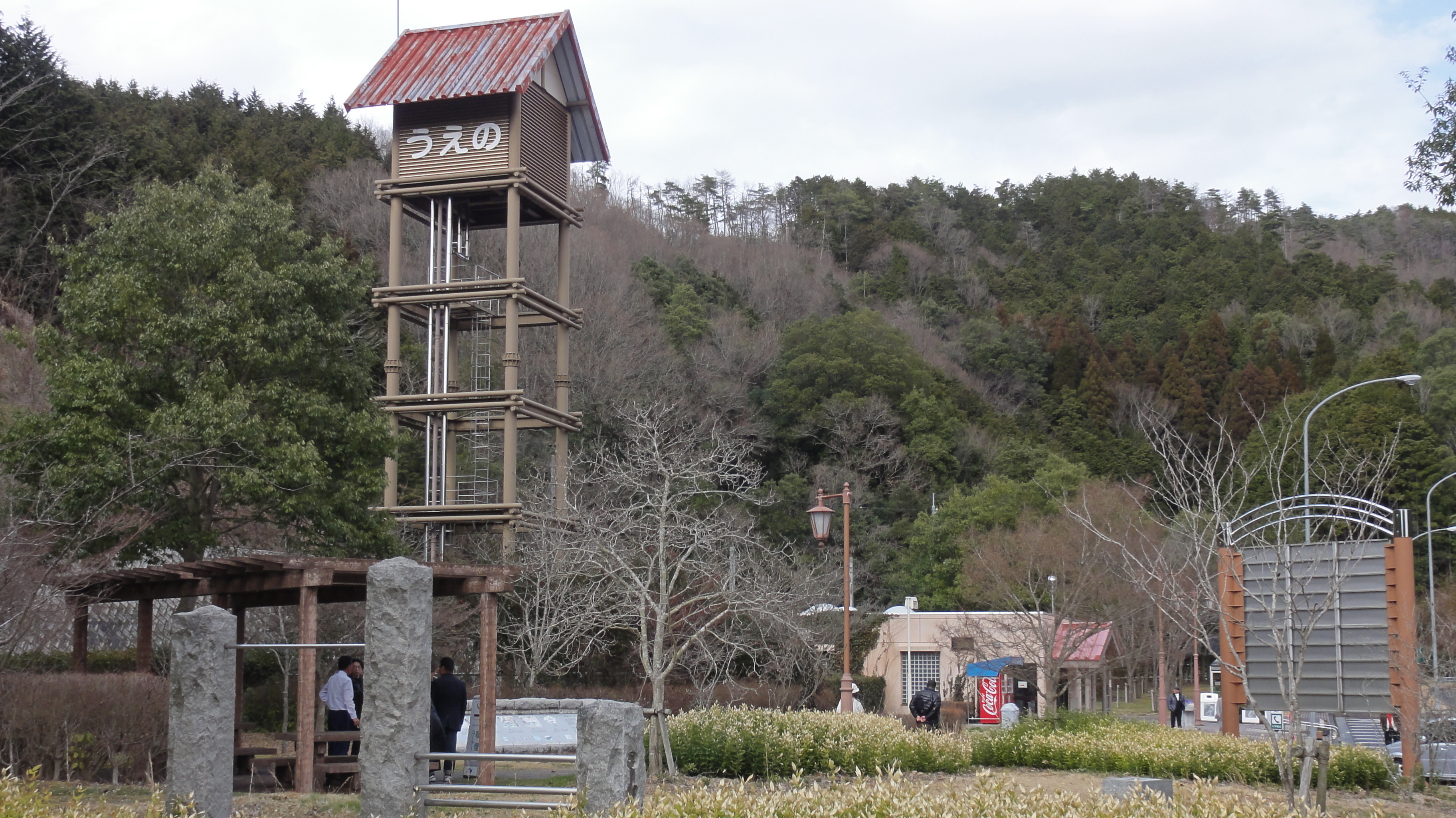 Ueno Paking Area,Okayama prefecture, Japan